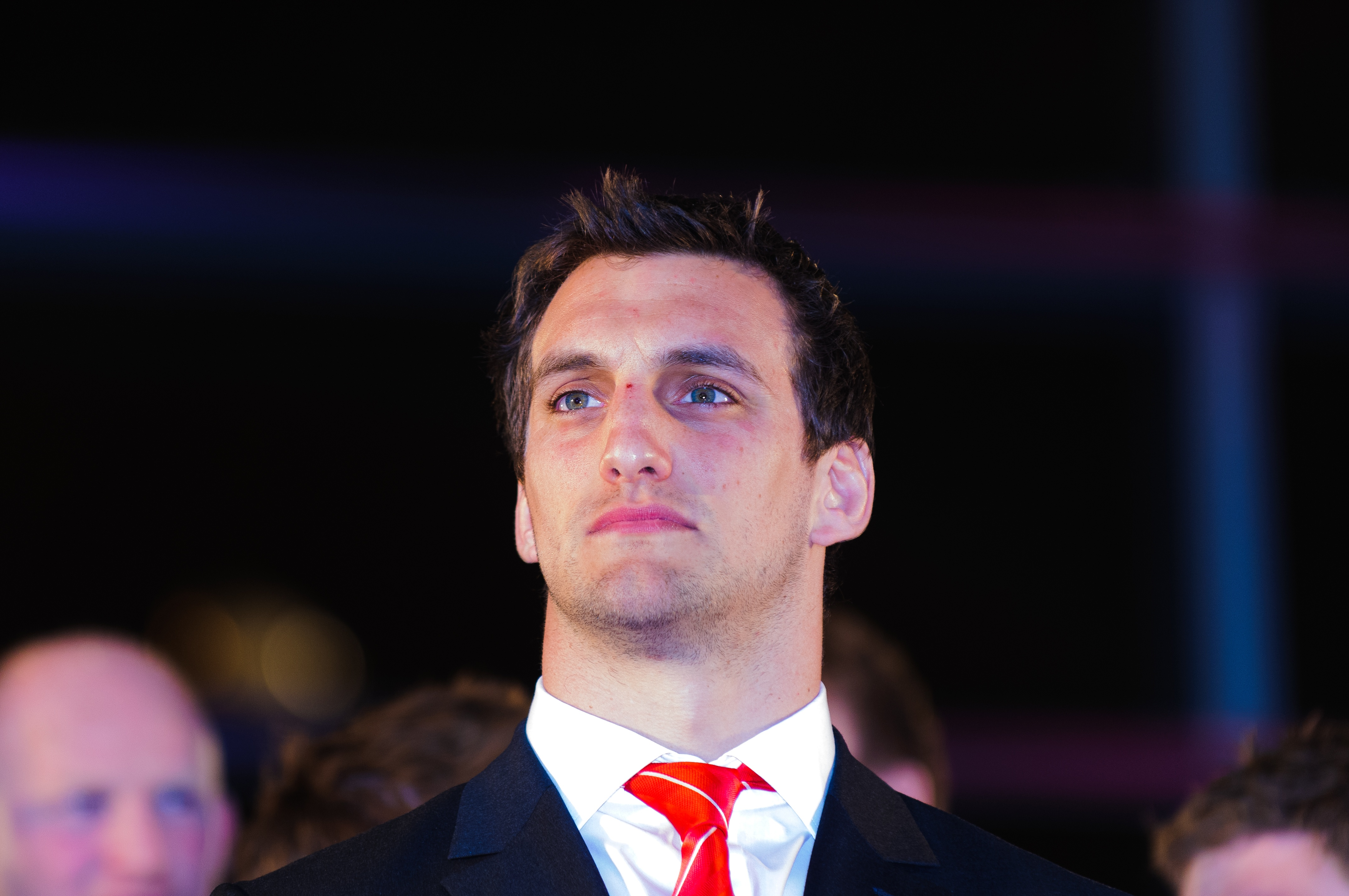 Sam Warburton Wales rugby union captain. Wales Grand Slam Celebration, Senedd 19 March 2012